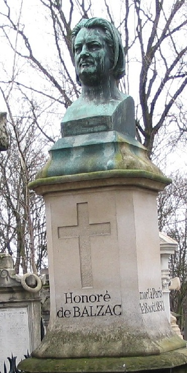 Author: Piotr Tysarczyk Place: Pere Lachaise Cemetery, Paris Sculptor: David d'Angers (1788 - 1856)